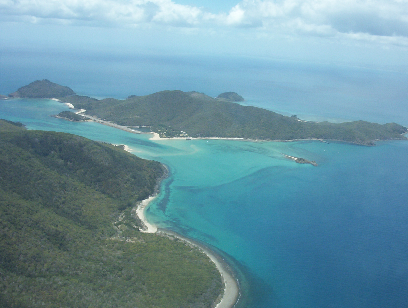 Photo I took of Brampton Island, Queensland, Australia, in December 2005.